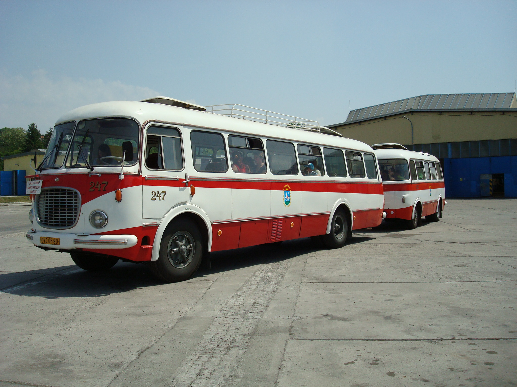 Škoda 706 RTO CAR bus (#247, built 1966) and Jelcz P-01E bus trailer (#1227, built 1974) in Ostrava, Czech Republic. DP Ostrava operator.